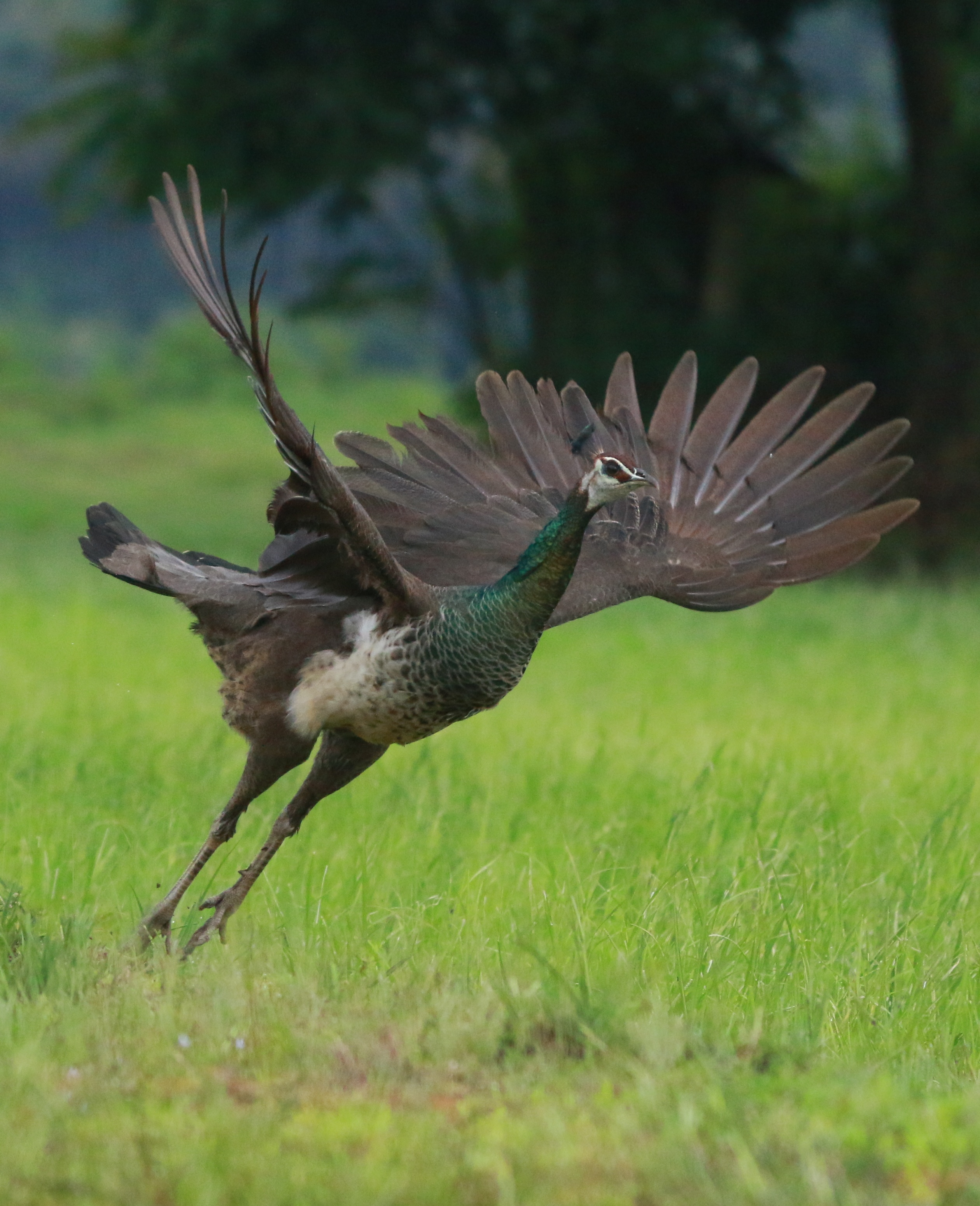 Indian peafowl female